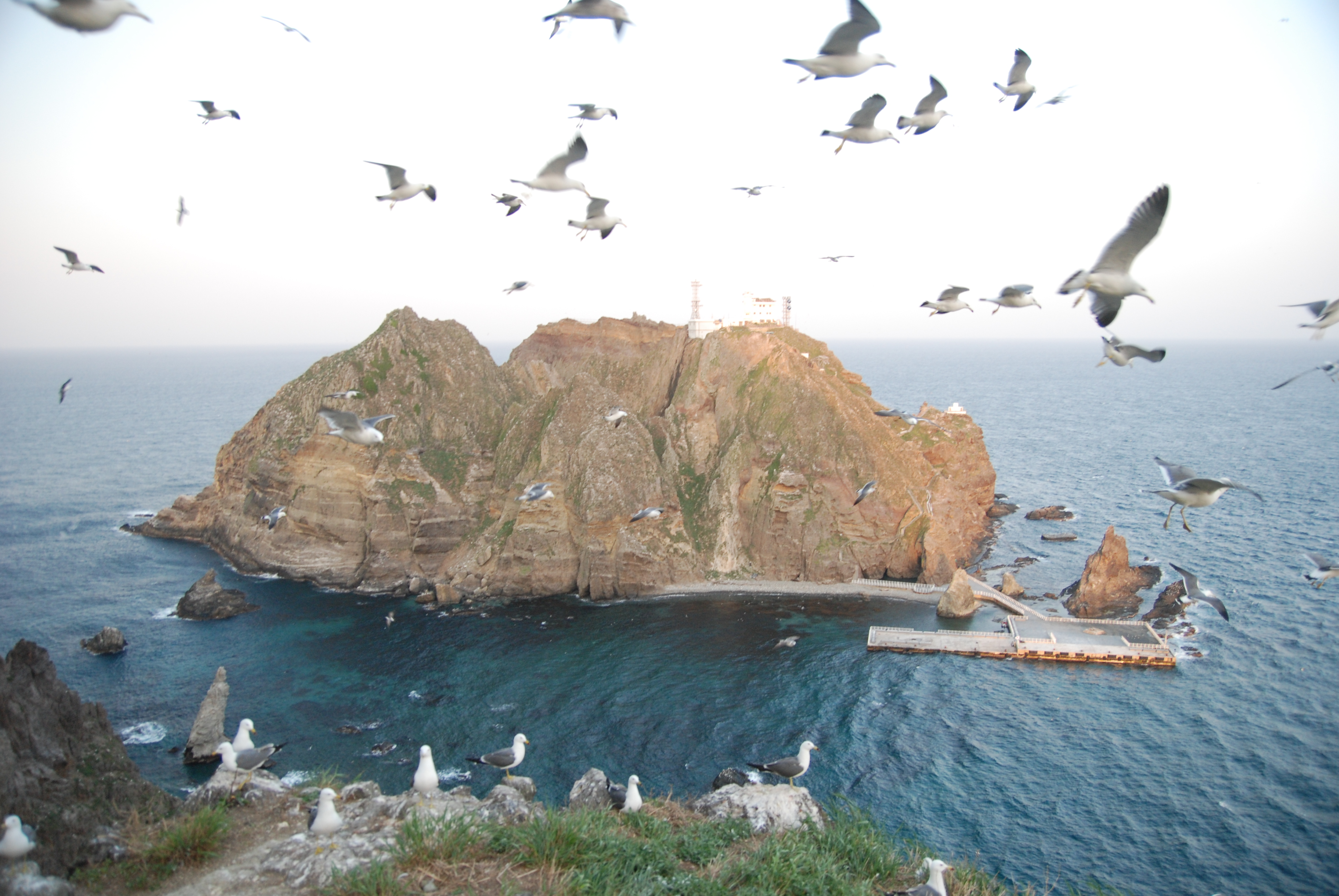 Nesting Black-tailed Gulls Larus crassirostris on the peak of Liancourt Rocks's West Islet. In the background is the East Islet.